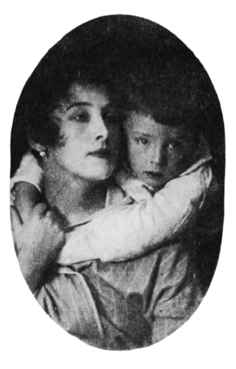 F. Zigel and his mother N.P. Zigel.